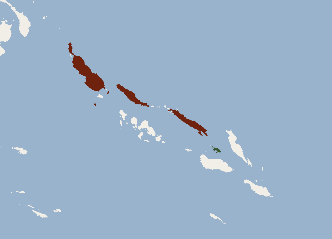 According to Flannery, 1995.